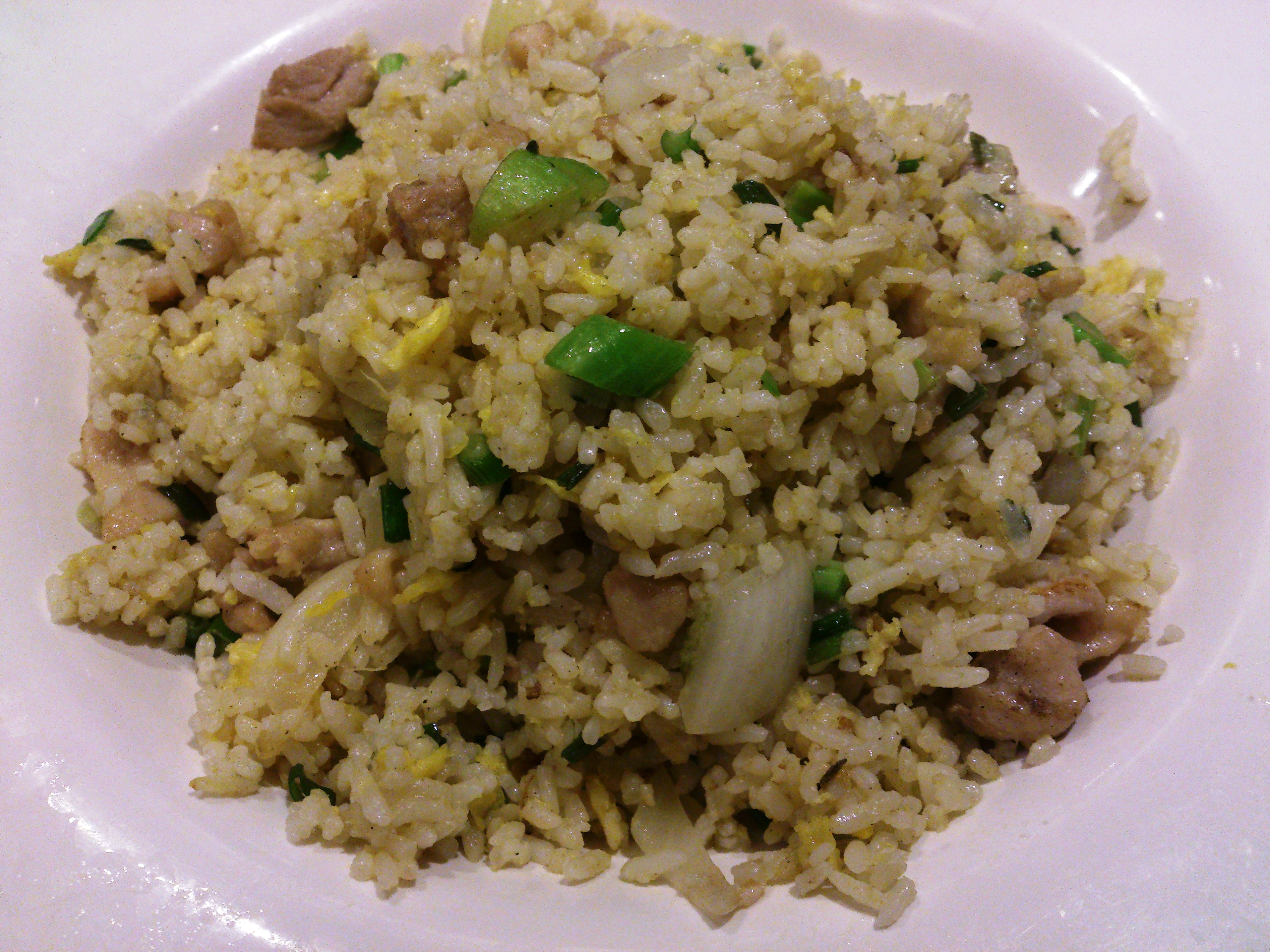 Fried Rice with Salted Fish and Chicken